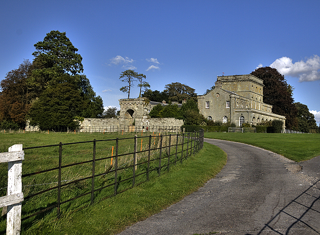 Eastbury House The former service wing of Eastbury House is all that remains now of John Vanbrugh's once great mansion, his third largest and one of his most important, ranking alongside Blenheim Palace and Castle Howard. Built for George Bubb Dodington between 1717 and 1738, it was demolished forty years later as an untenantable eyesore, the materials being reused in many a farmhouse and cottage throughout the district. Now a Grade I Listed country house.